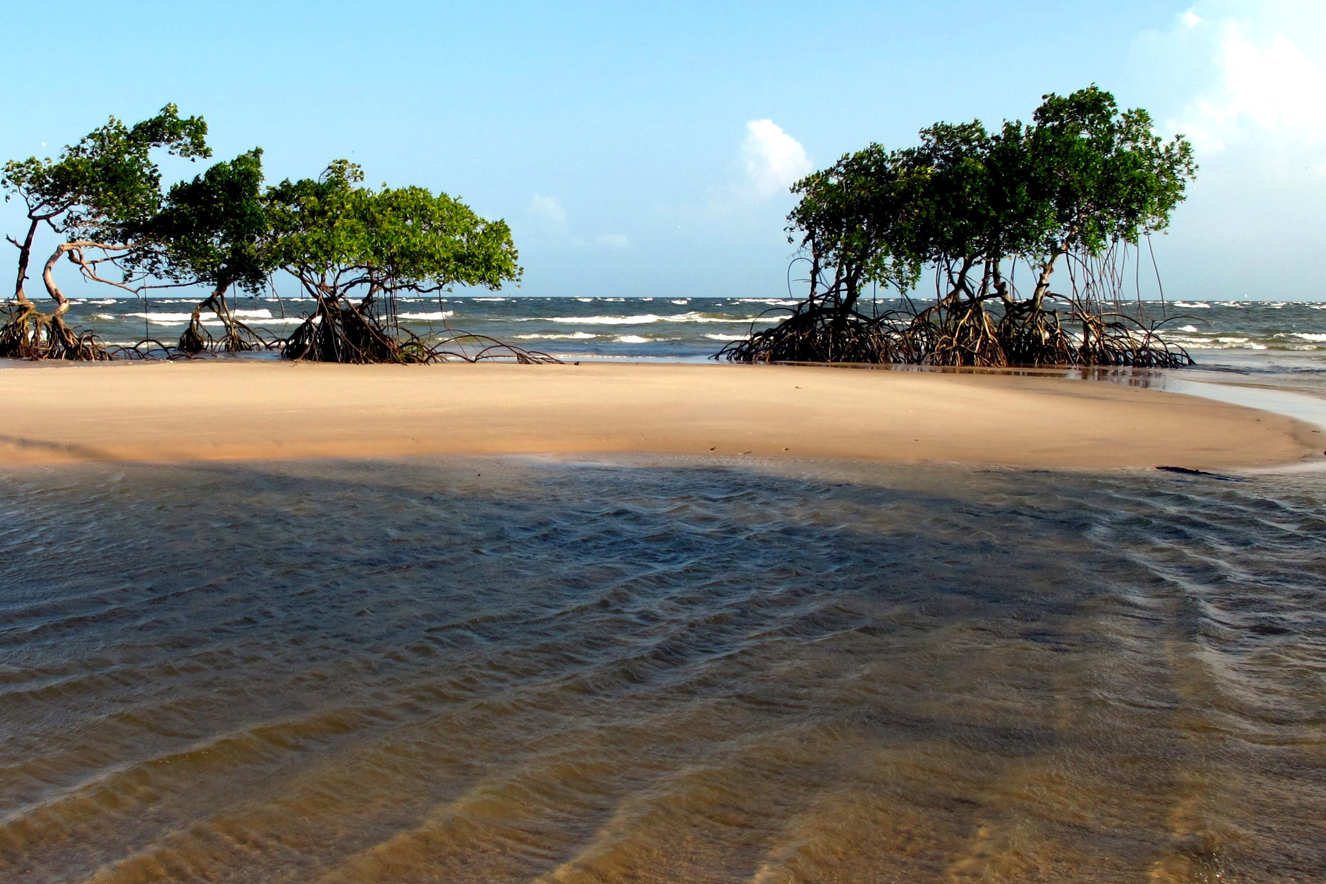 A beach in Marajó Island, Pará, Brazil